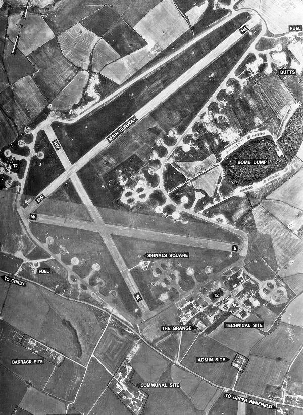 Aerial photograph of Deenethorpe Airfield, England.